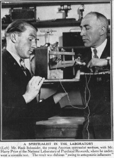 The spiritualist medium Rudi Schneider being tested by Harry Price at the National Laboratory of Psychical Research.